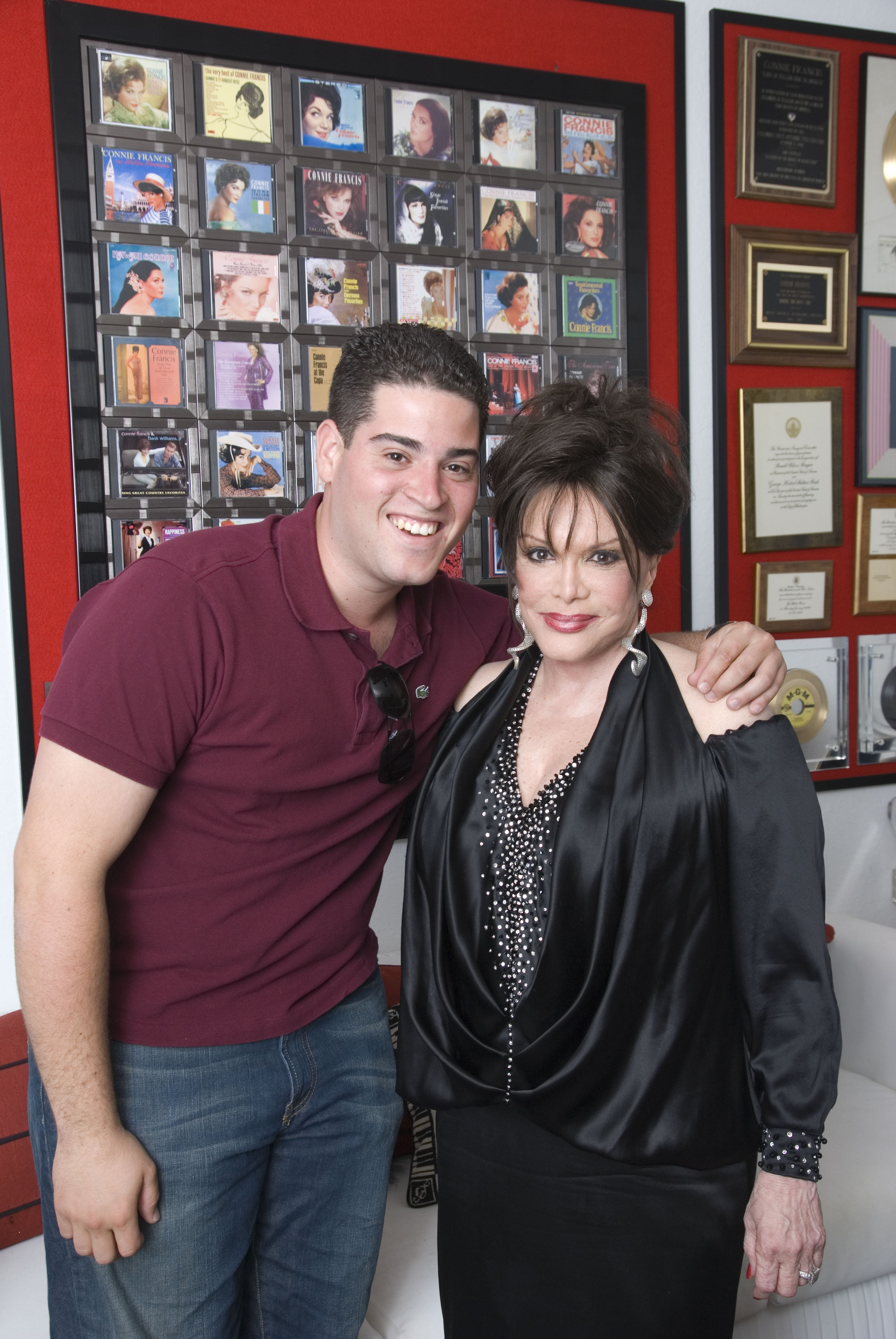 David H. Roth & Connie Francis